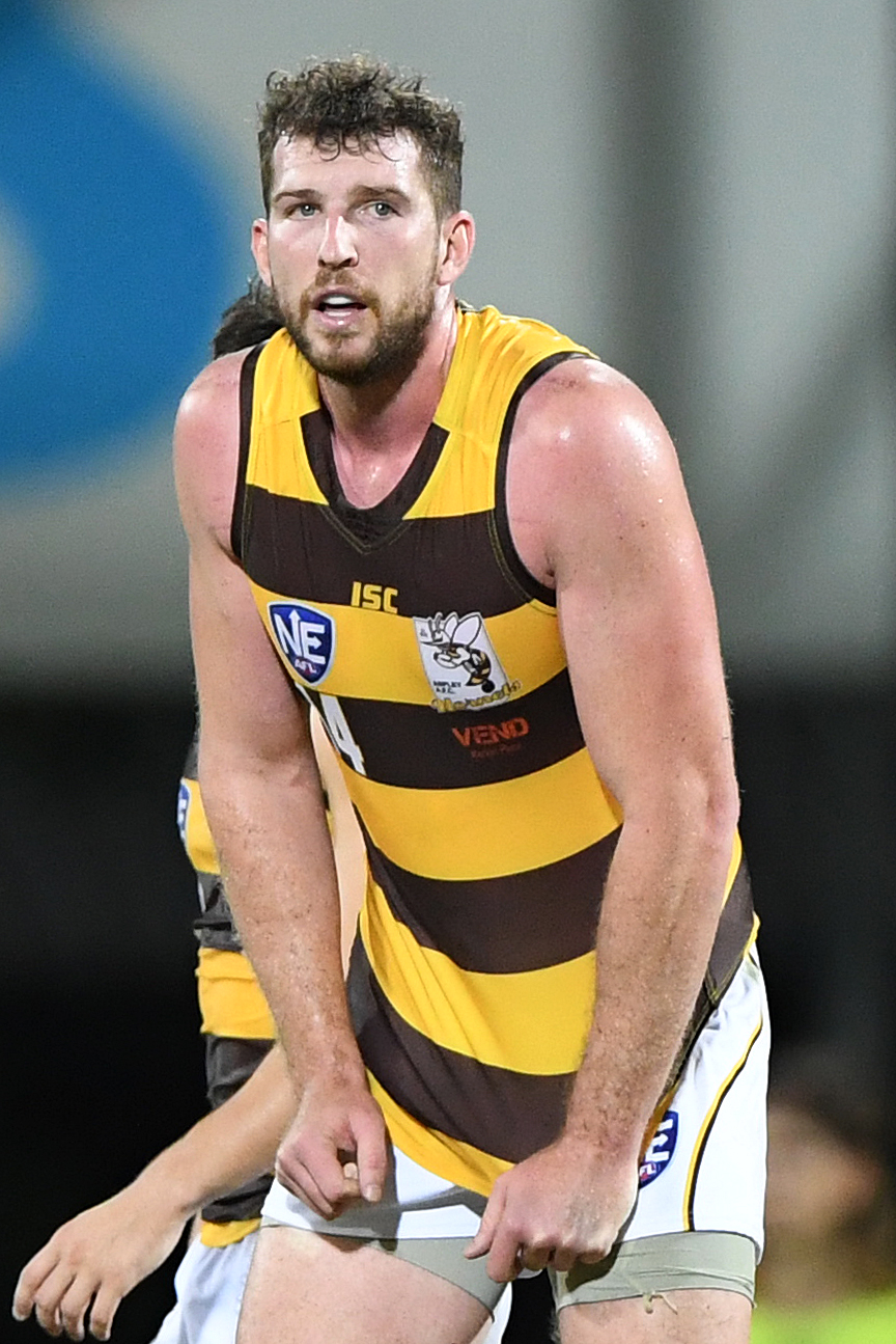 Jake Spencer of Aspley during the 2019 NEAFL round 7 match between NT Thunder and Aspley at TIO Stadium on Saturday, 18 May 2019 in Darwin, Northern Territory.